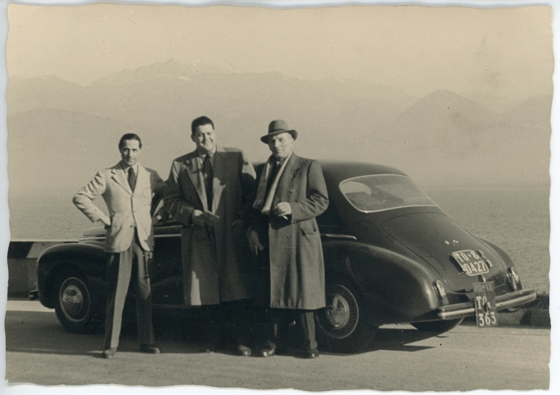 From left: Francesco De Virgilio (engineer at Lancia), Gianni Lancia (owner) and Vittorio Jano (engineer at Lancia). The car looks like a 1947 Lancia "Bilux". It may also be a "prototype" 1948 Aurelia Berlina, not sure. Photo is dated 14 March 1948, so this is a "Sunday trip". Place: Unknown. License plate is "TO", meaning the car is licensed in Torino (where Lancia is).